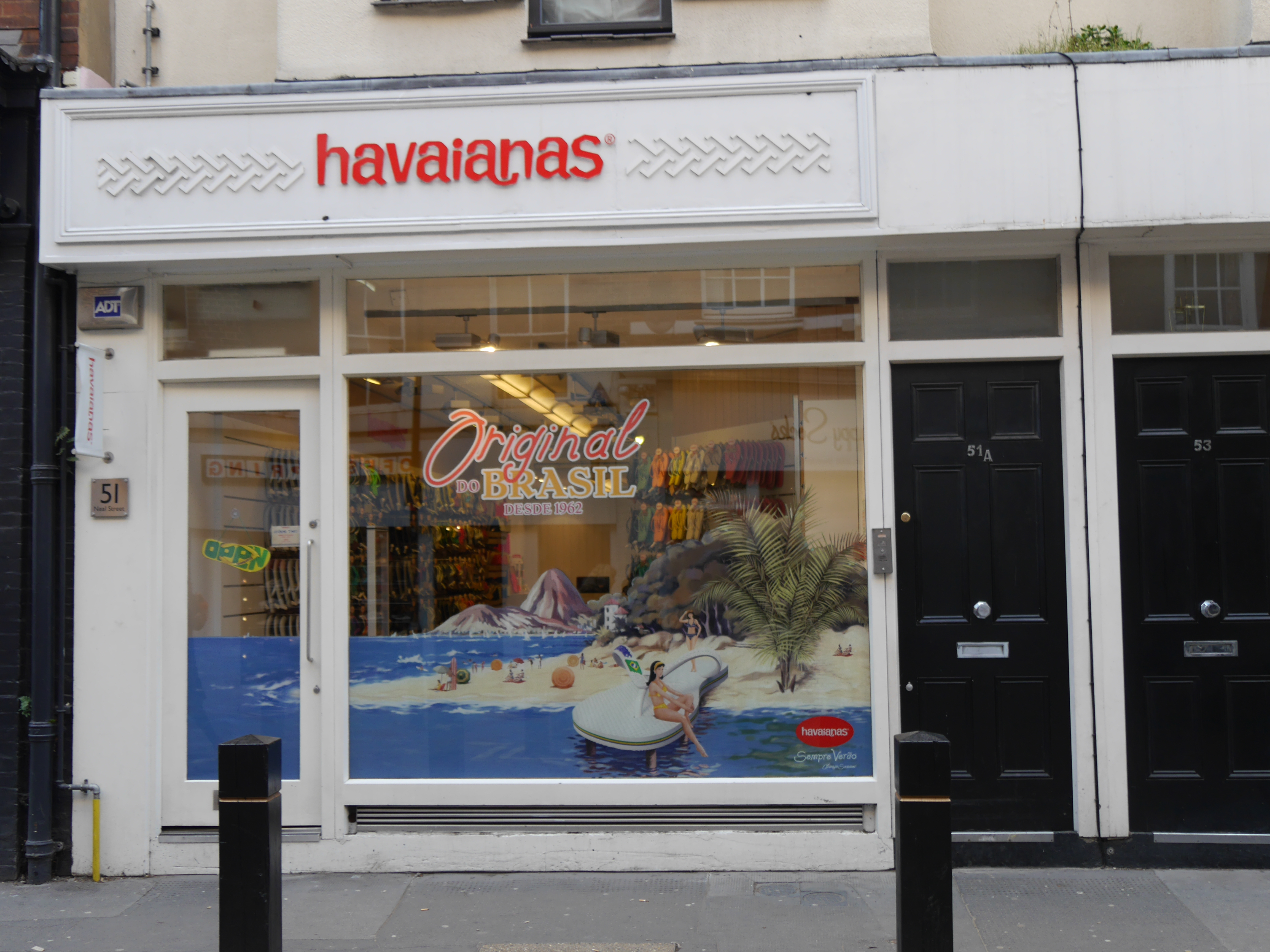 Neal Street, Covent Garden